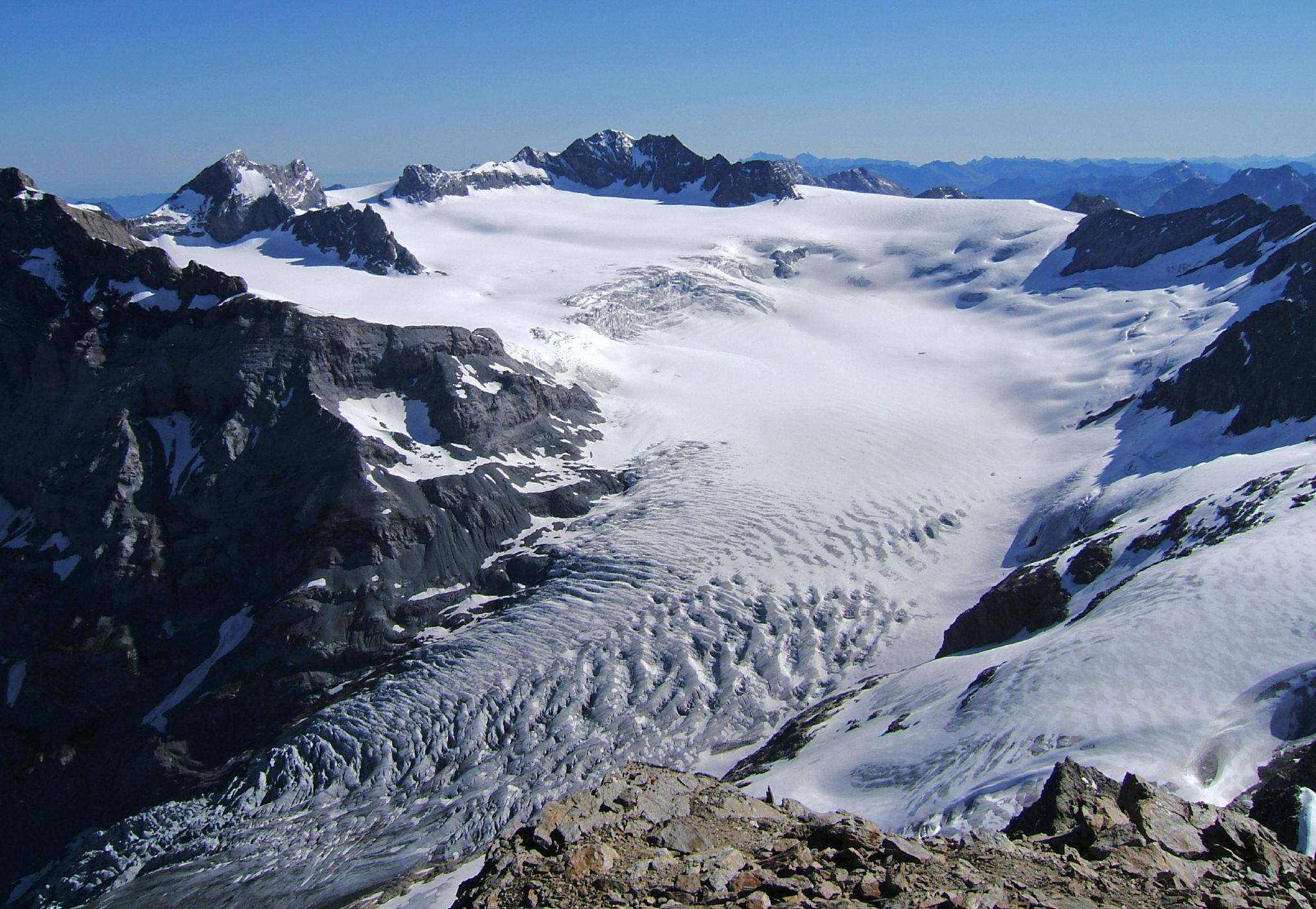 Clariden (center) from Düssi across the Hüfifirn, Switzerland